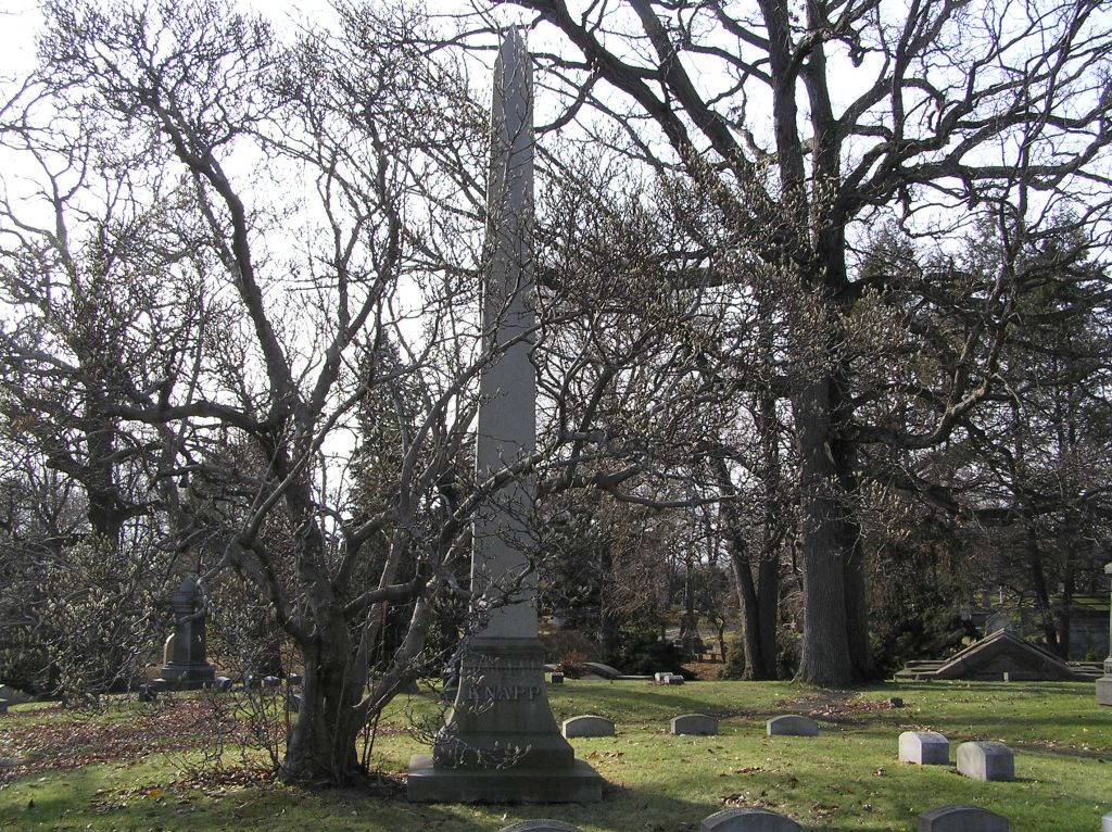 The tower at Herman Knapp's grave at Woodlawn Cemetery, Bronx, NY